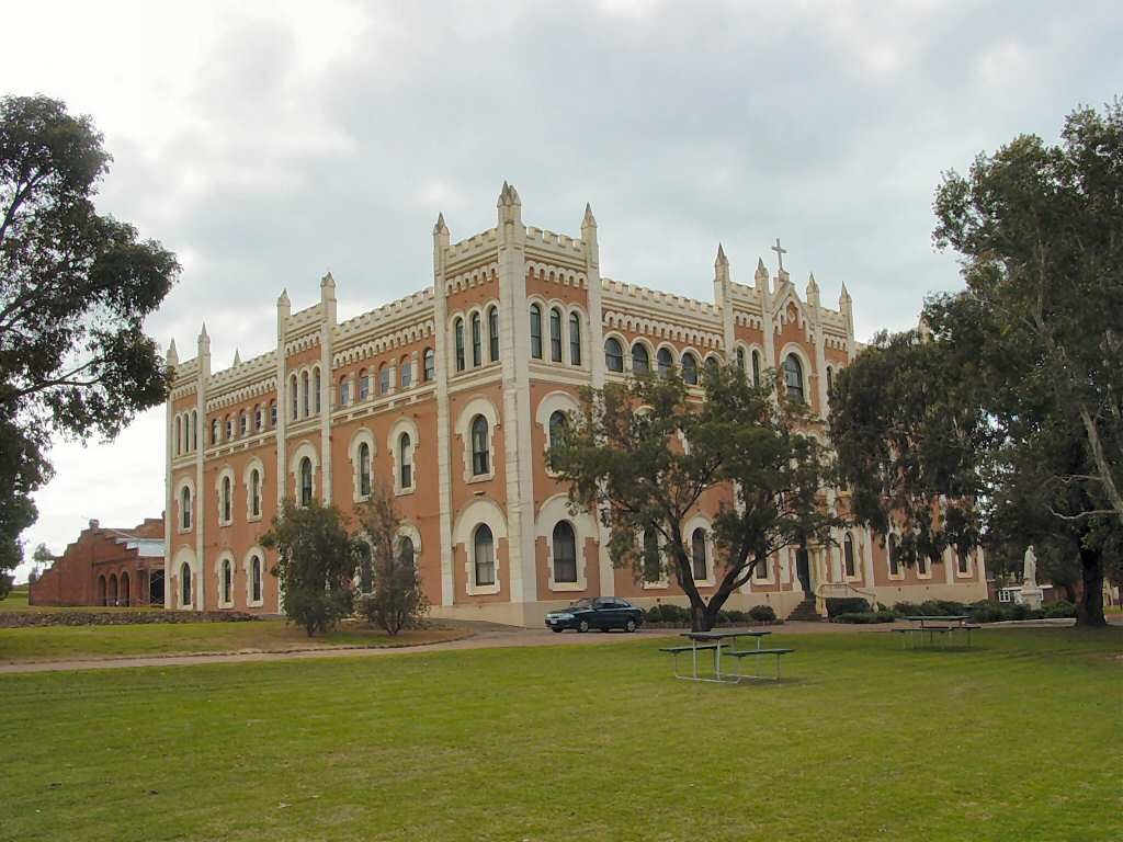 Boys School in New Norcia, Western Australia.